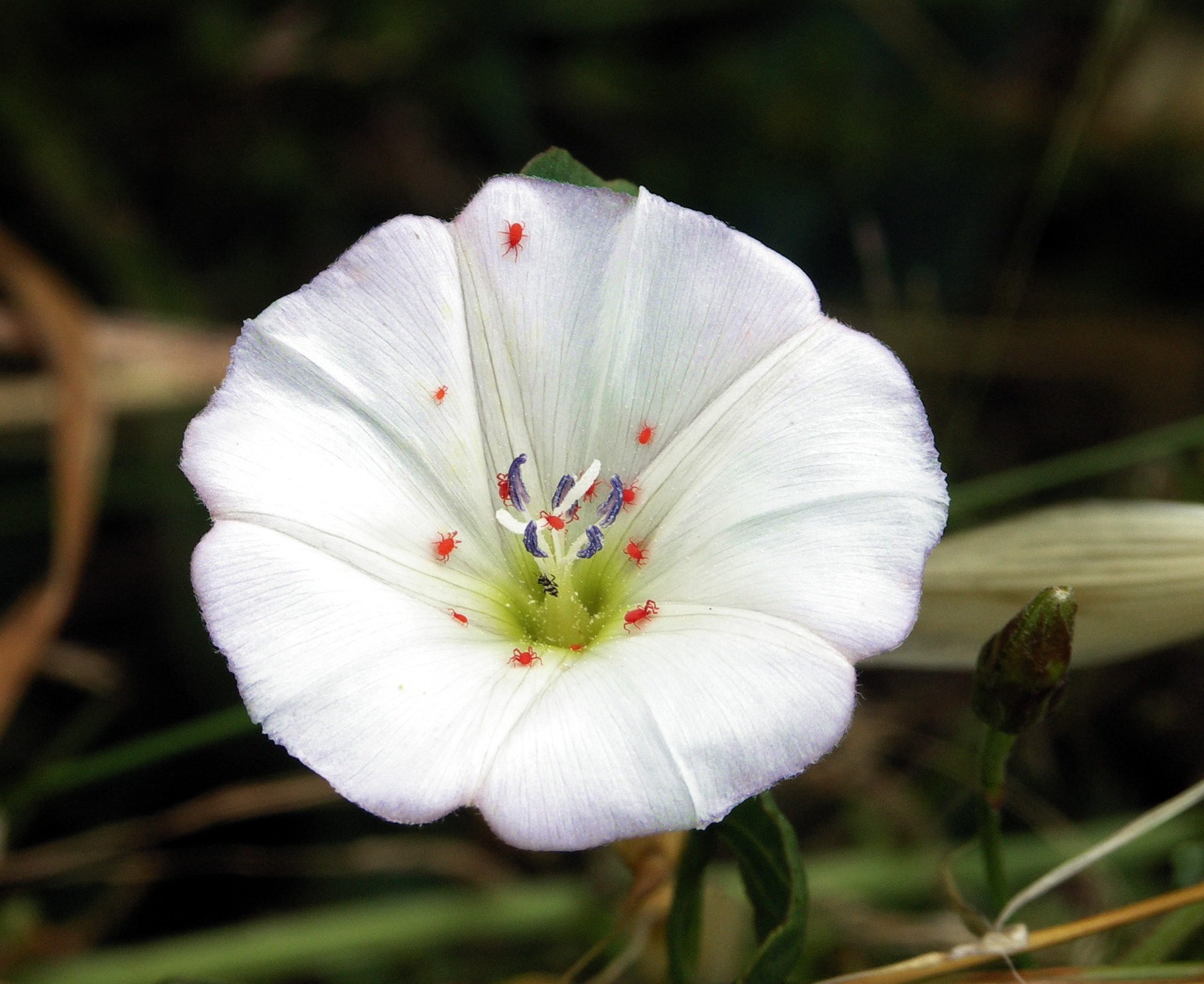 Convolvulus arvensis flower with velvet mites (Trombidium spec.)